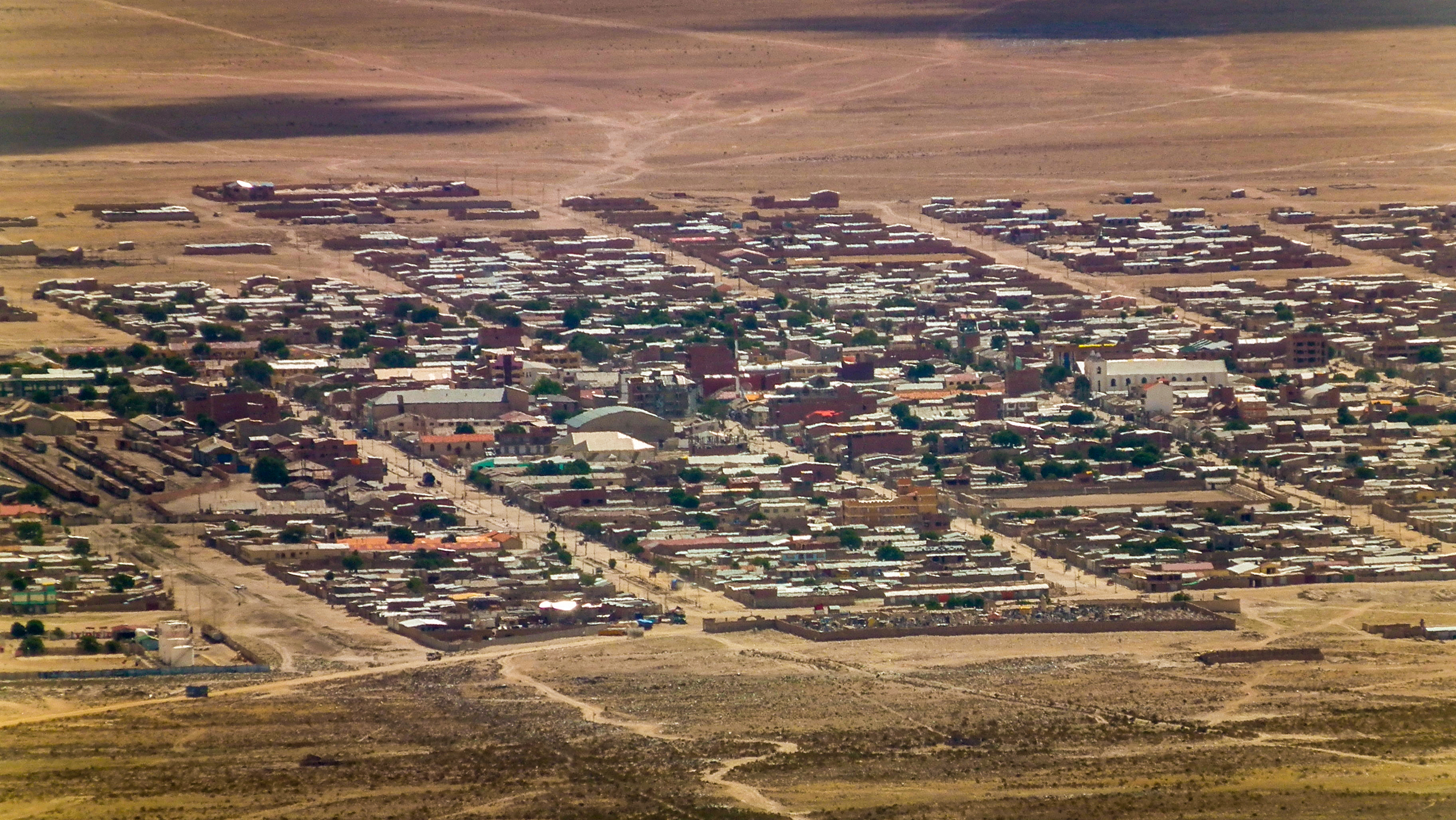 Uyuni as seen from the mountains northeast of the city.